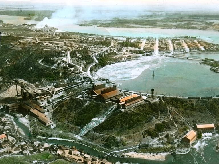 Photograph, glass lantern slide, Shawinigan Falls, QC, about 1930, Anonymous, Silver salts and transparent ink on glass - Gelatin dry plate process - 8 x 10 cm